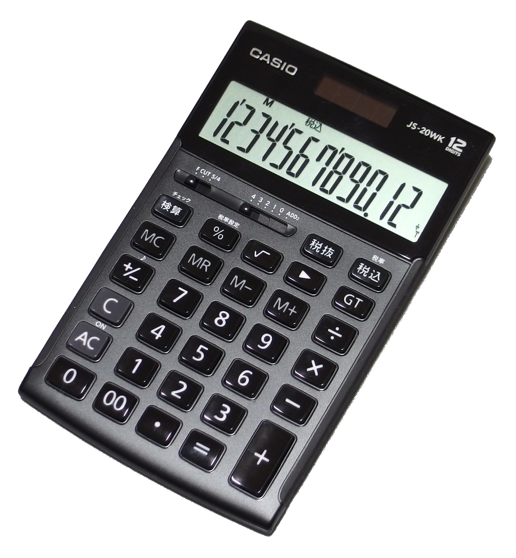 Casio calculator JS-20WK